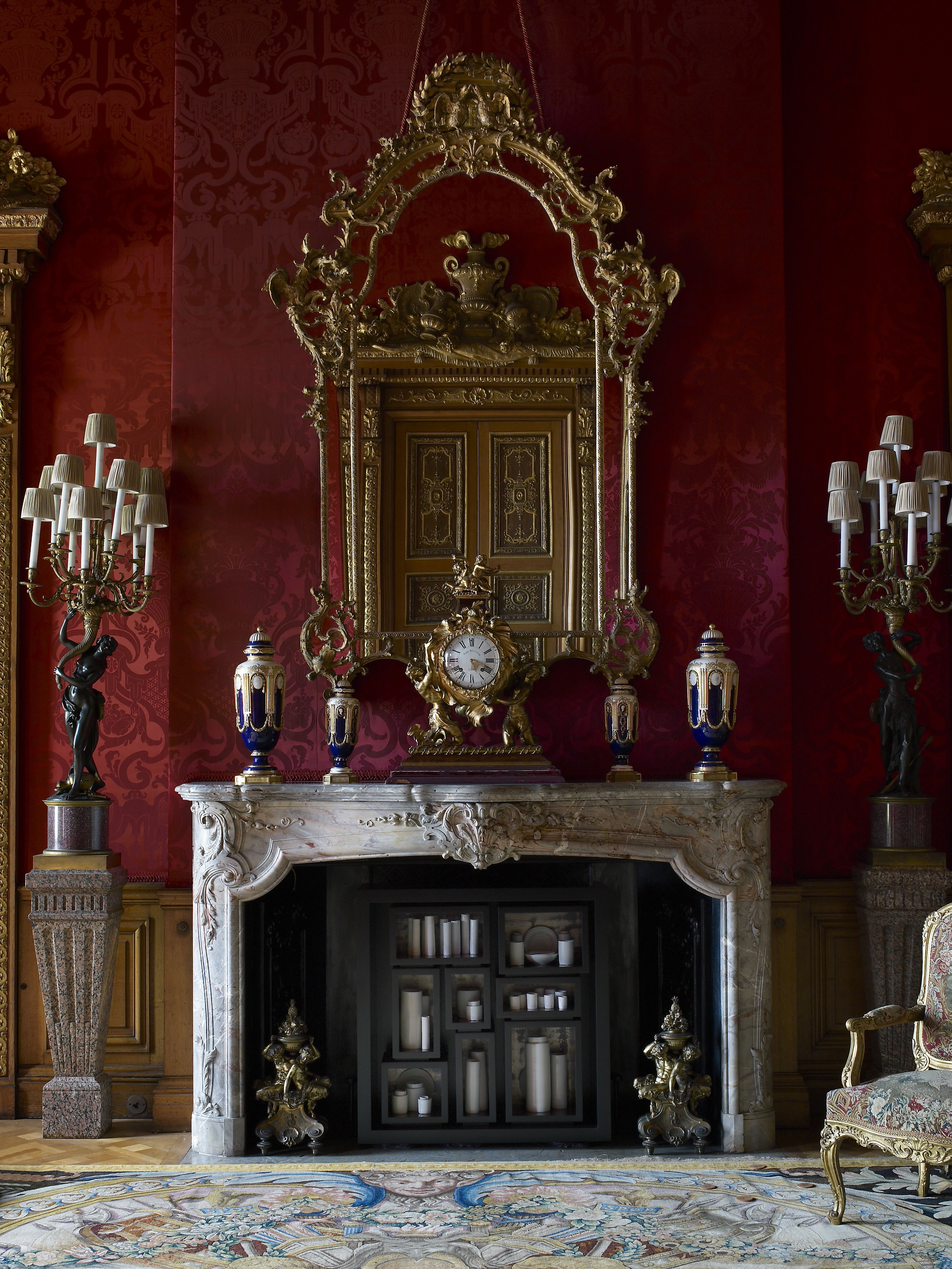 Edmund de Waal, "on the properties of fire, 2012, in situ at Waddesdon Manor, Buckinghamshire